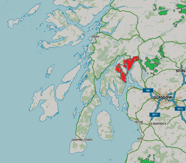 The location of the Argyll Forest Park in western Scotland